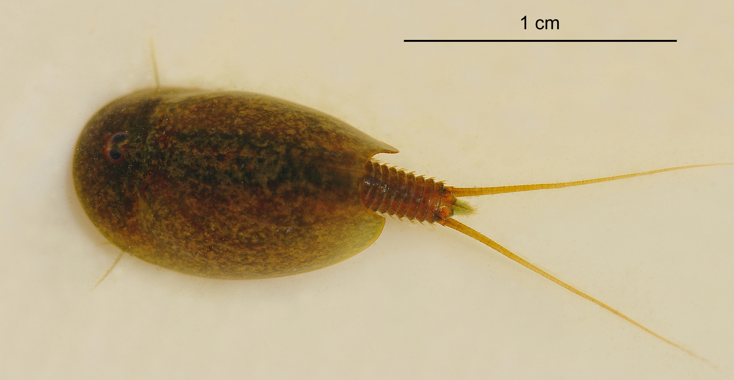 A species of Tadpole shrimps (Notostraca), Lepidurus apus, living in temporarily water-filled pools. Length of this specimen: about 2.5 cm / 1 inch (incl. furca of the tail).